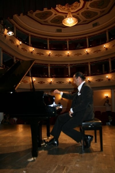 Cosimo Damiano Lanza